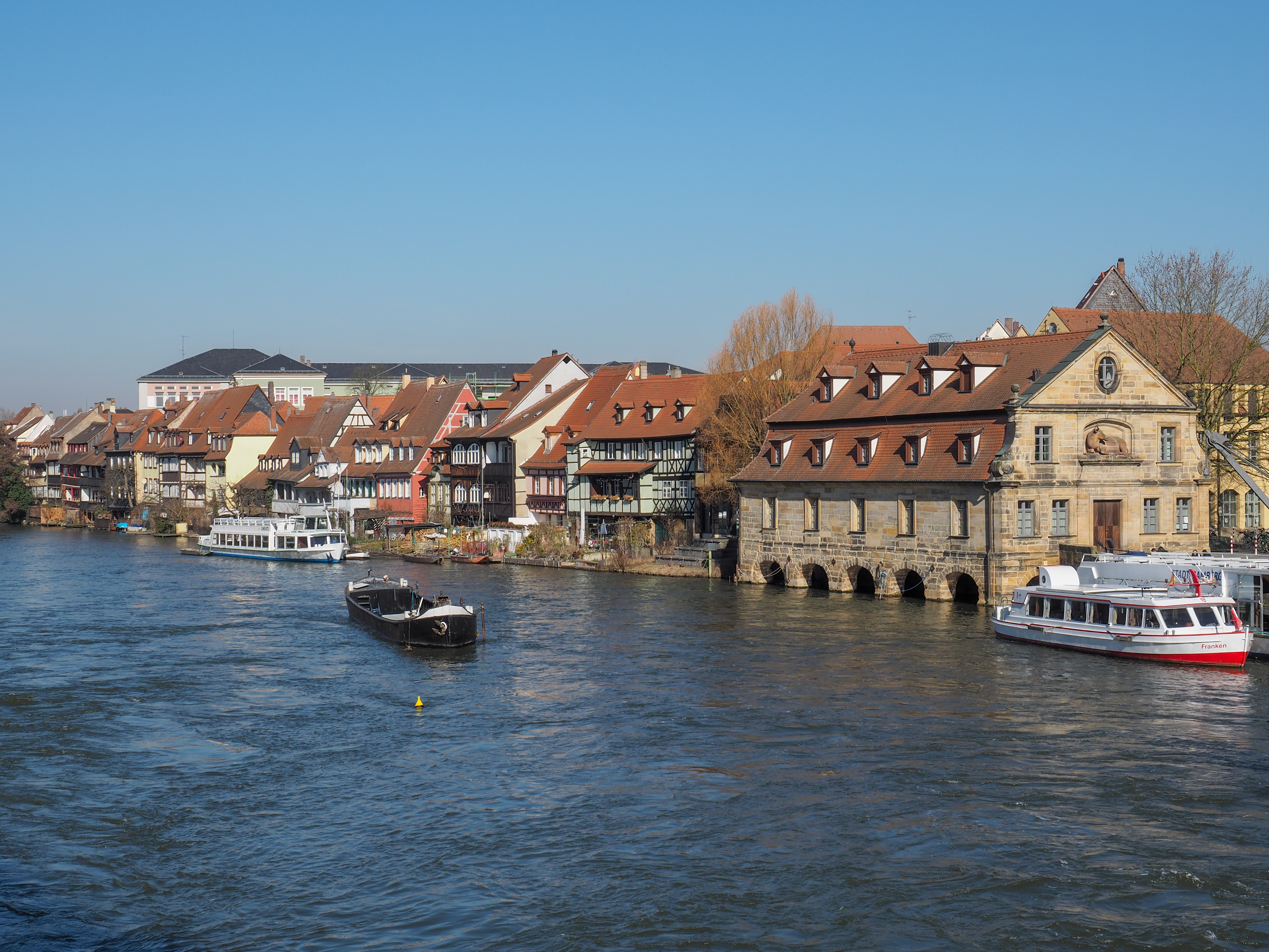 View from the lower bridge to small Venice in Bamberg